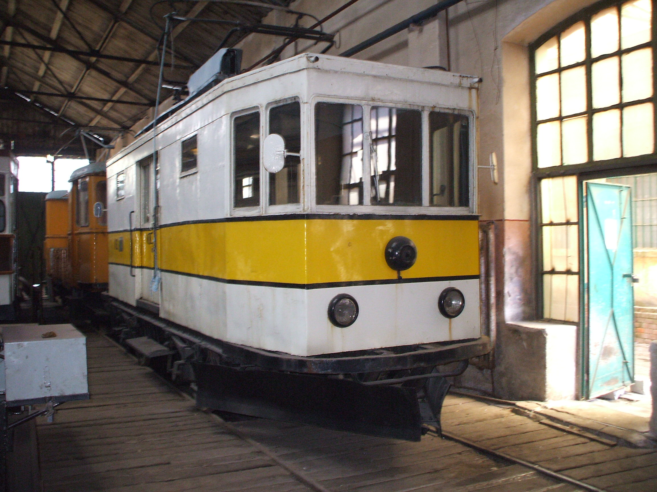 VS1 Snow Ploug